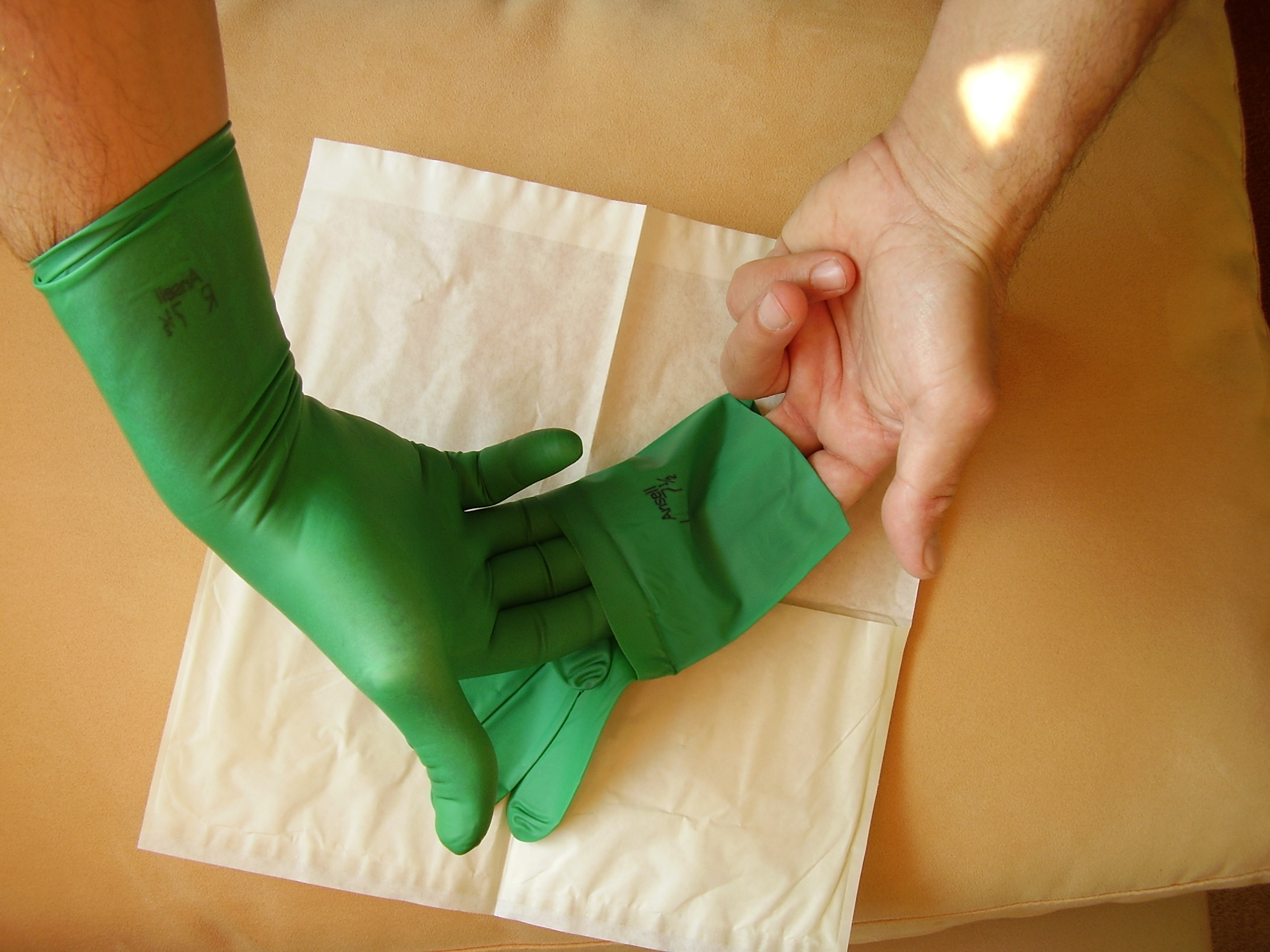 Disposable gloves; surgical gloves; chirurgische Handschuhe; steril; Latexhandschuhe